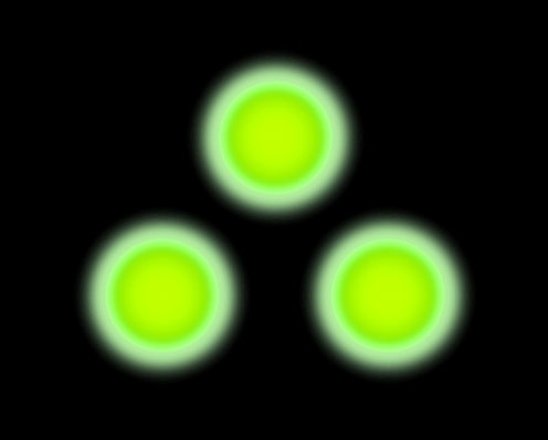 Trifocal Goggle is symbol of Splinter Cell Series. NOTE: This image is NOT from real Splinter Cell artwork or screenshot.